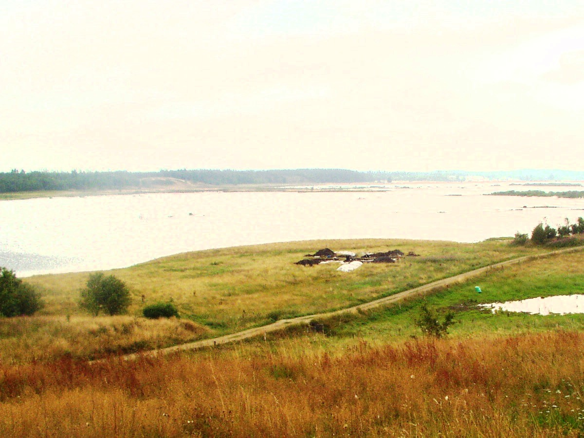 Bølling sø and stone age site Dveærgebakke